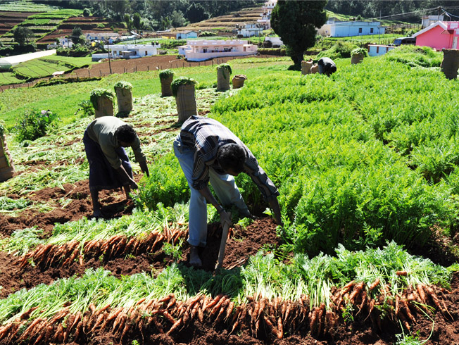 A vegetable farm in Vattavada (Idukki district) — Kerala.